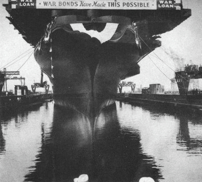 The U.S. Navy aircraft carrier USS Randolph (CV-15) after her launch at the Newport News Shipbuilding and Drydock Company, Virginia (USA), on 28 June 1944.